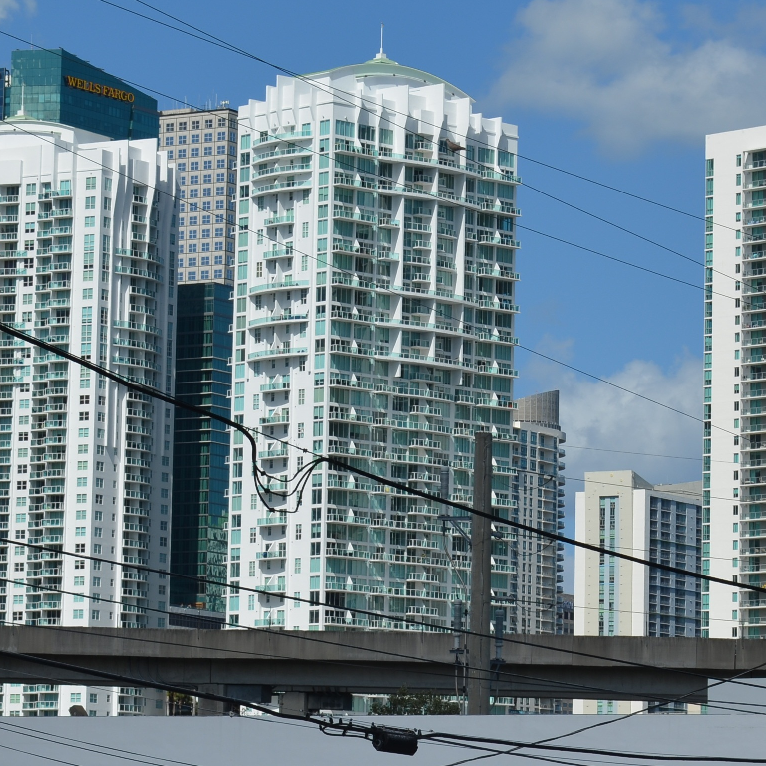 Brickell on the River